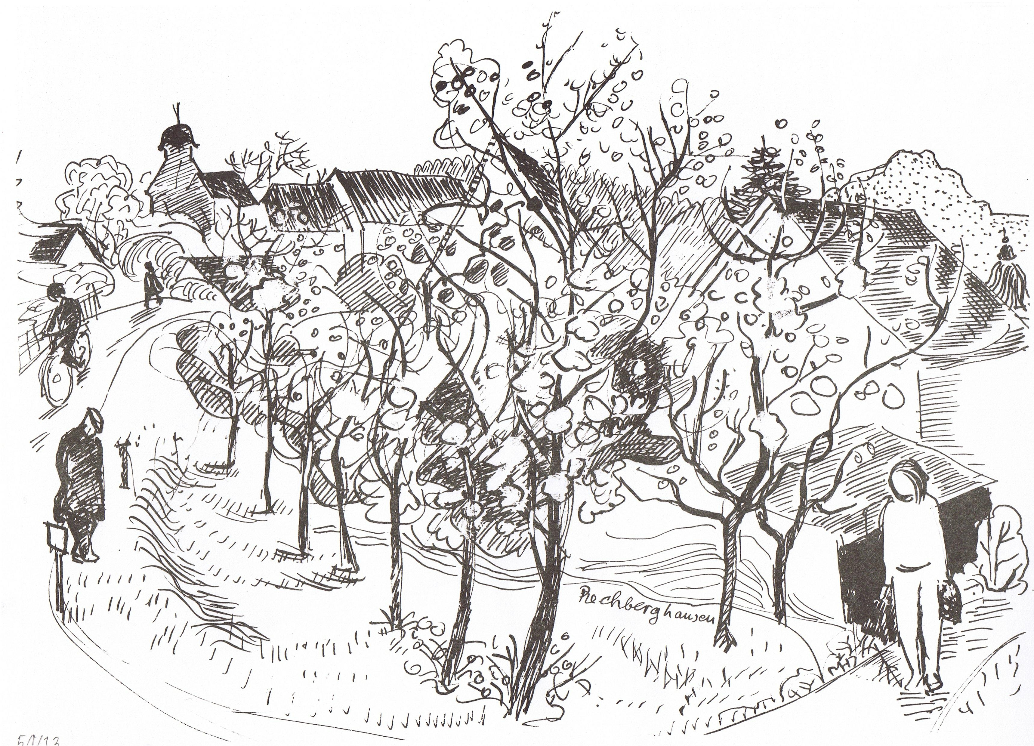 Rechberghausen, ink drawing, 30 x 20 cm